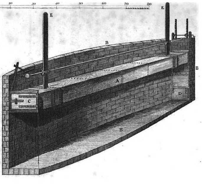 Sectional engraving of caisson lock built at Combe Hay, England